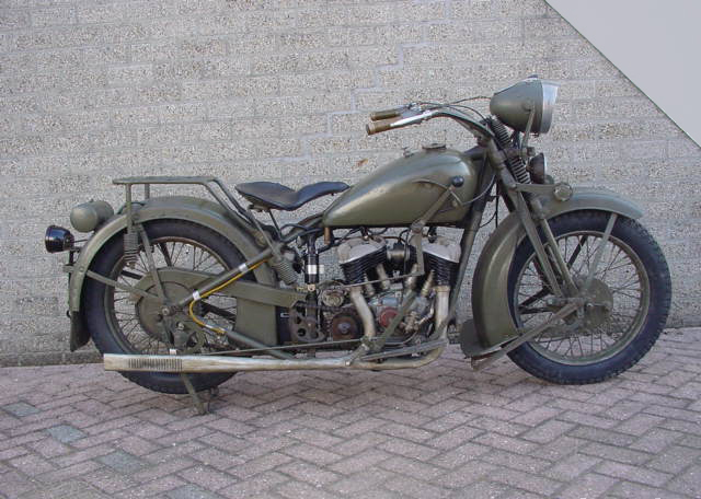 Polish 1936 995 cc v-twin Sokół 1000 motorcycle